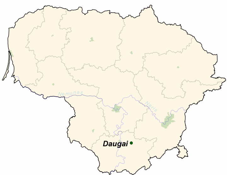 Daugai on the map of Lithuania